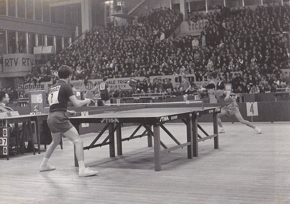 Postcard of Table tennis WC in Ljubljana.